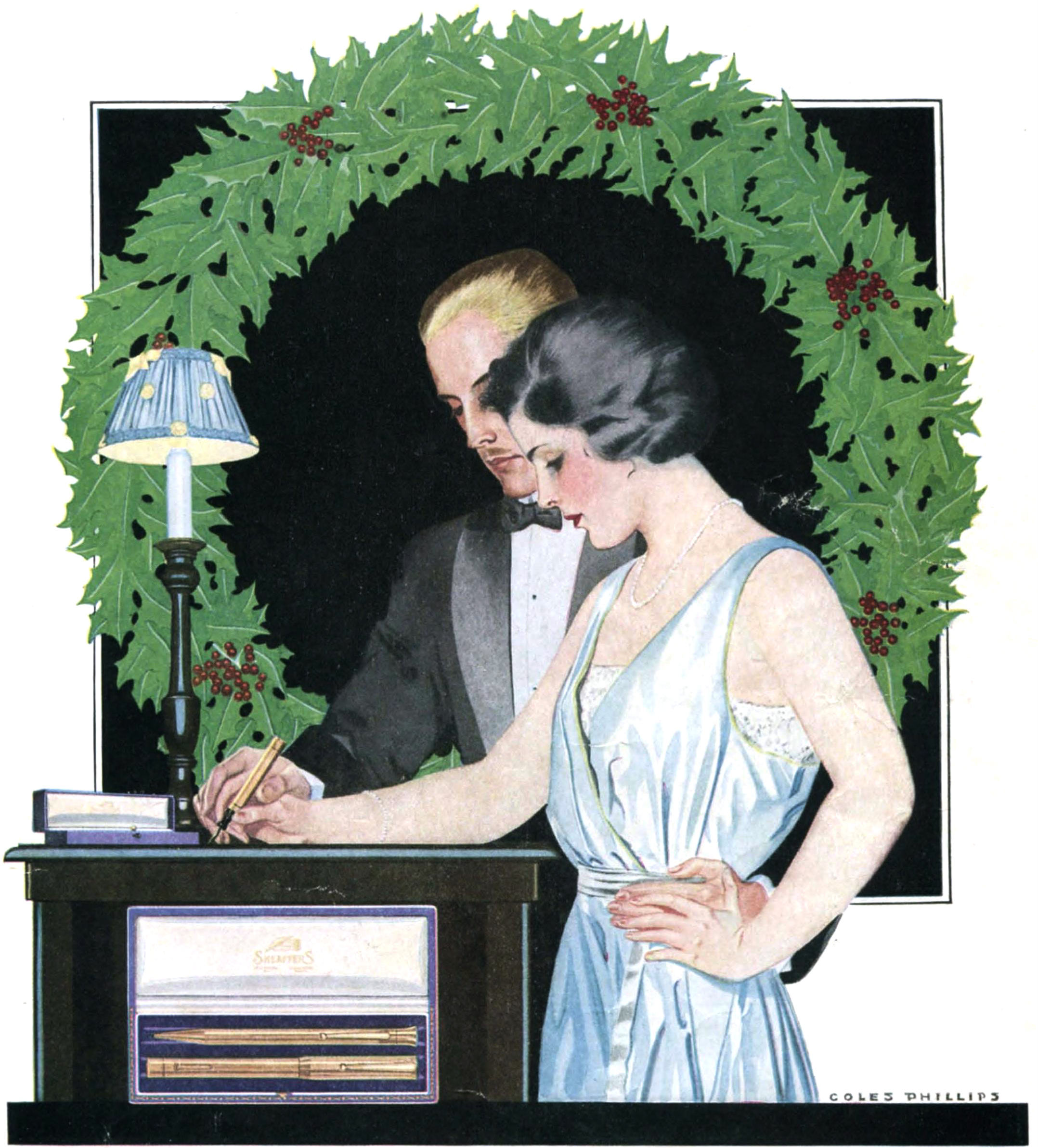 Illustration by Coles Phillips of a woman writing with a Sheaffer pen, from an advertisement for Christmas gift sets